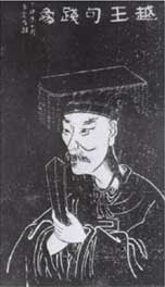 Historical drawing of King Gou Jian of Yue.